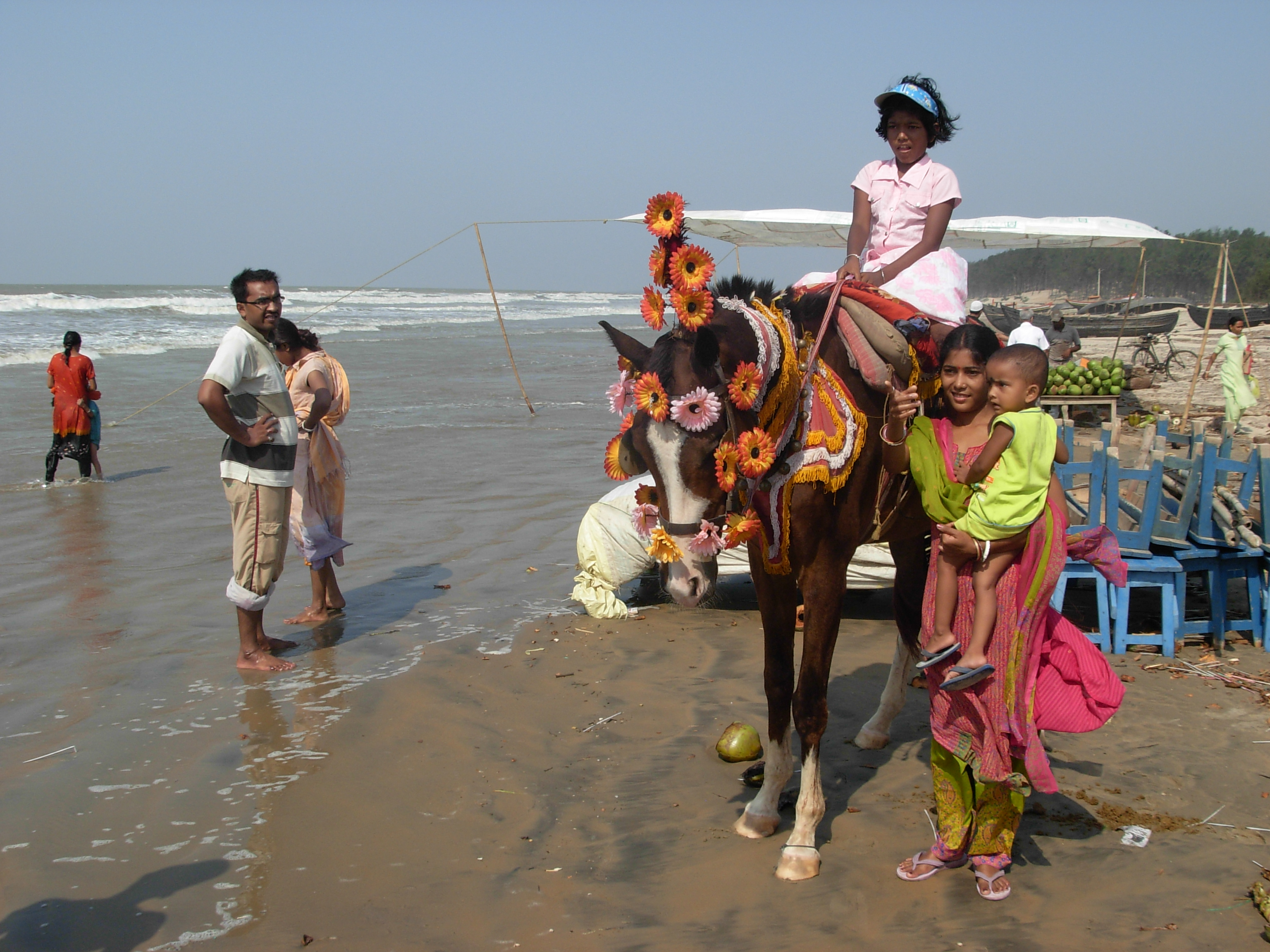 Children poses for taking photography at New Digha beach.